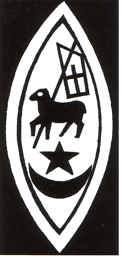 Seal of the the former Cistercian Nunnery Friedland, here of the abbess Katharina von Löben (Lobens) in a document from 1524. The monastery is situated in Altfriedland, a village of the municipality Neuhardenberg in the District Märkisch-Oderland, Brandenburg, Germany.